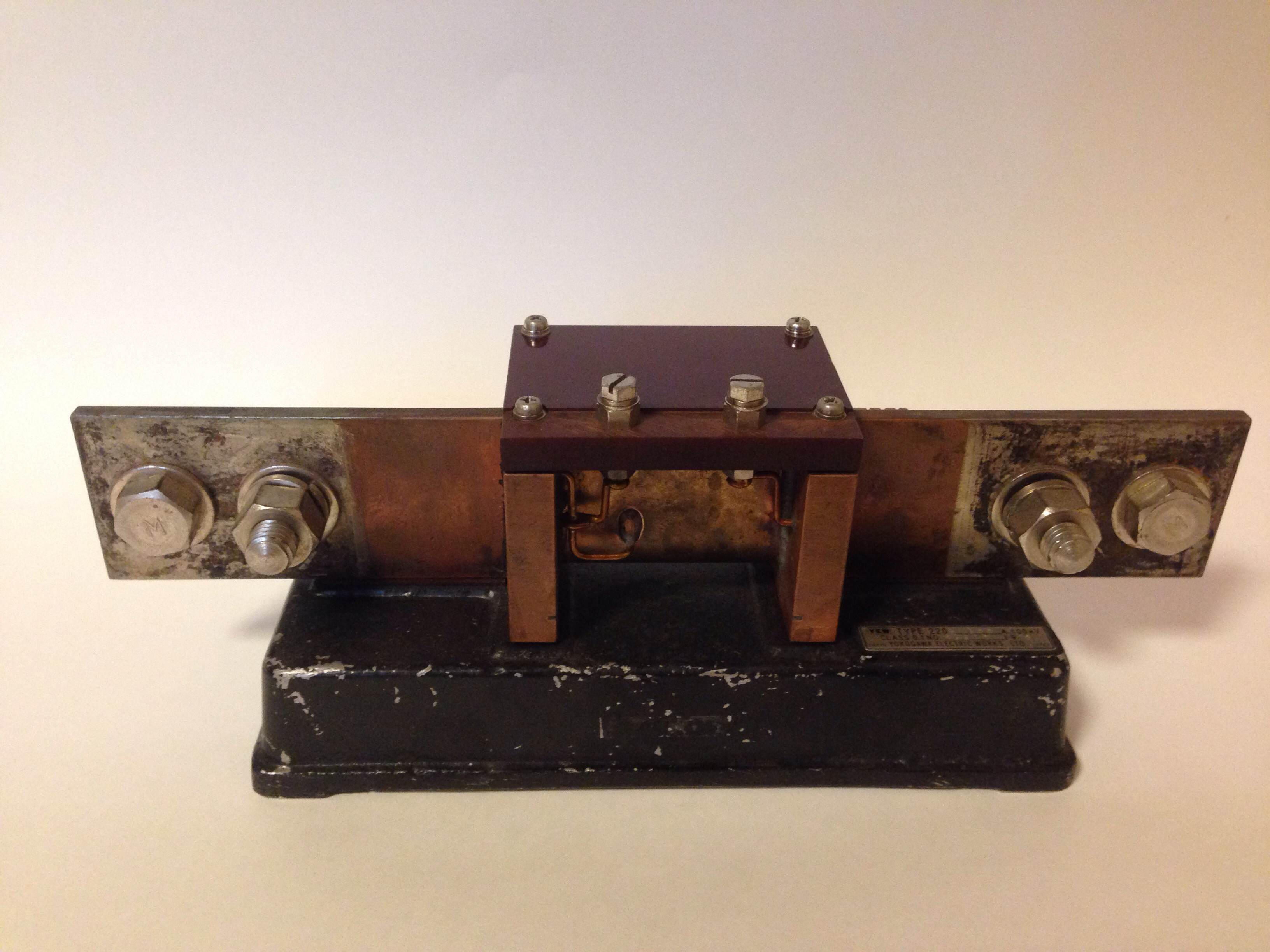 500A, 100mA Shunt resistor